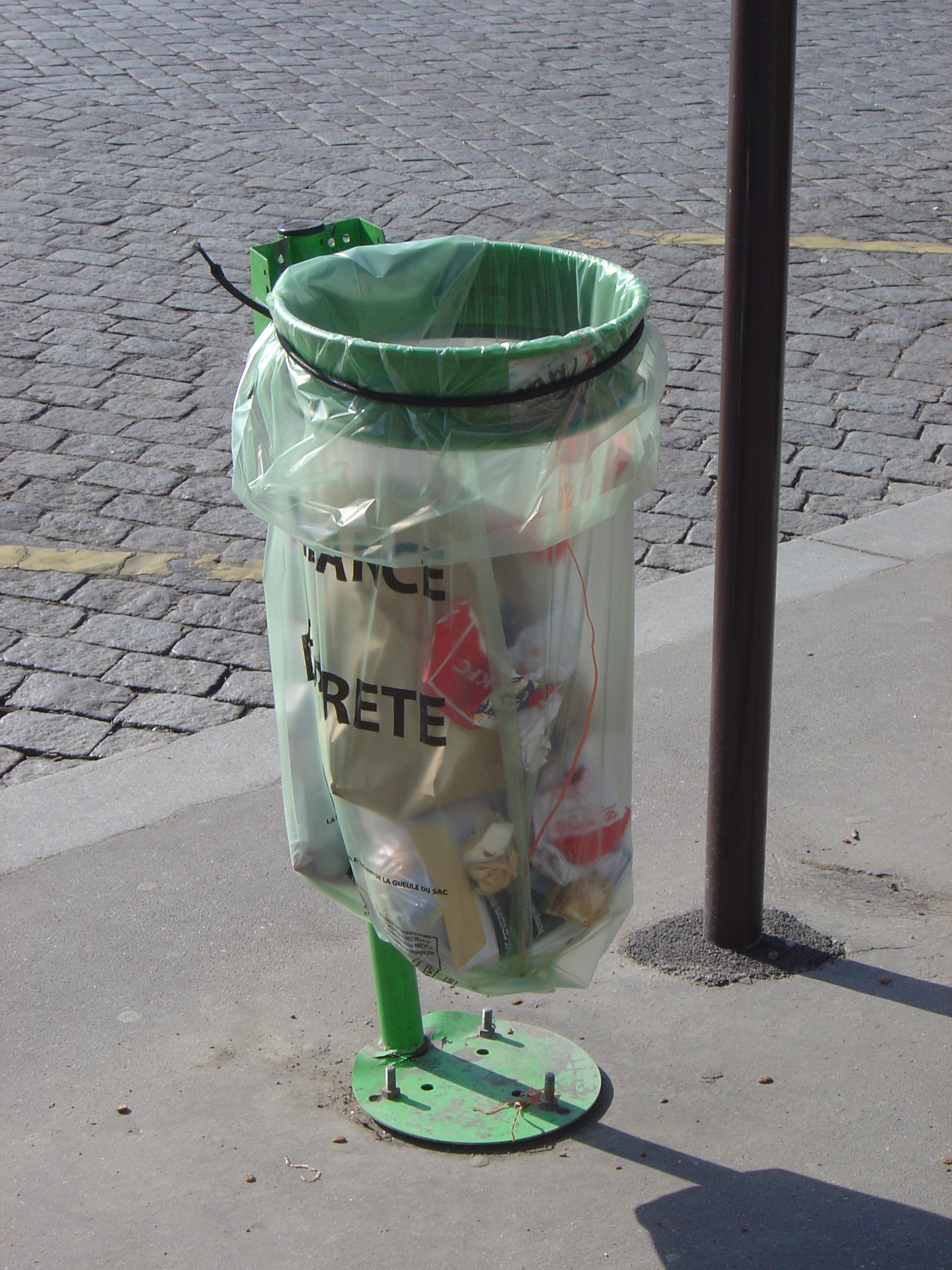 a plastic bag, replacing public trashcans, in Paris (Vigipirate anti-terror plan) The bag displays the inscription "Vigilance - Propreté" ("Vigilance - cleanliness")